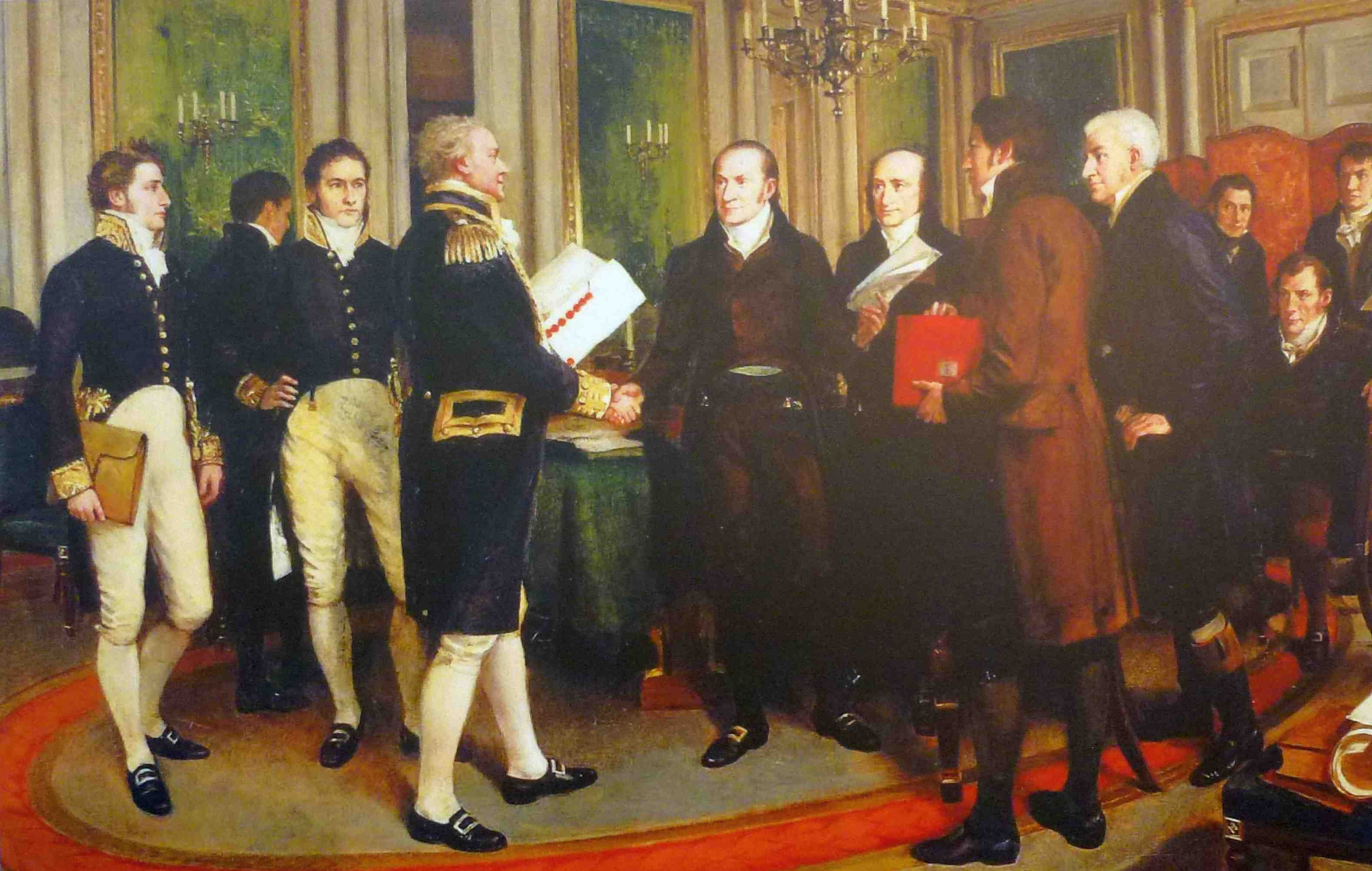 "The Signing of the Treaty of Ghent, Christmas Eve, 1814" by Amédée Forestier. Oil on canvas.